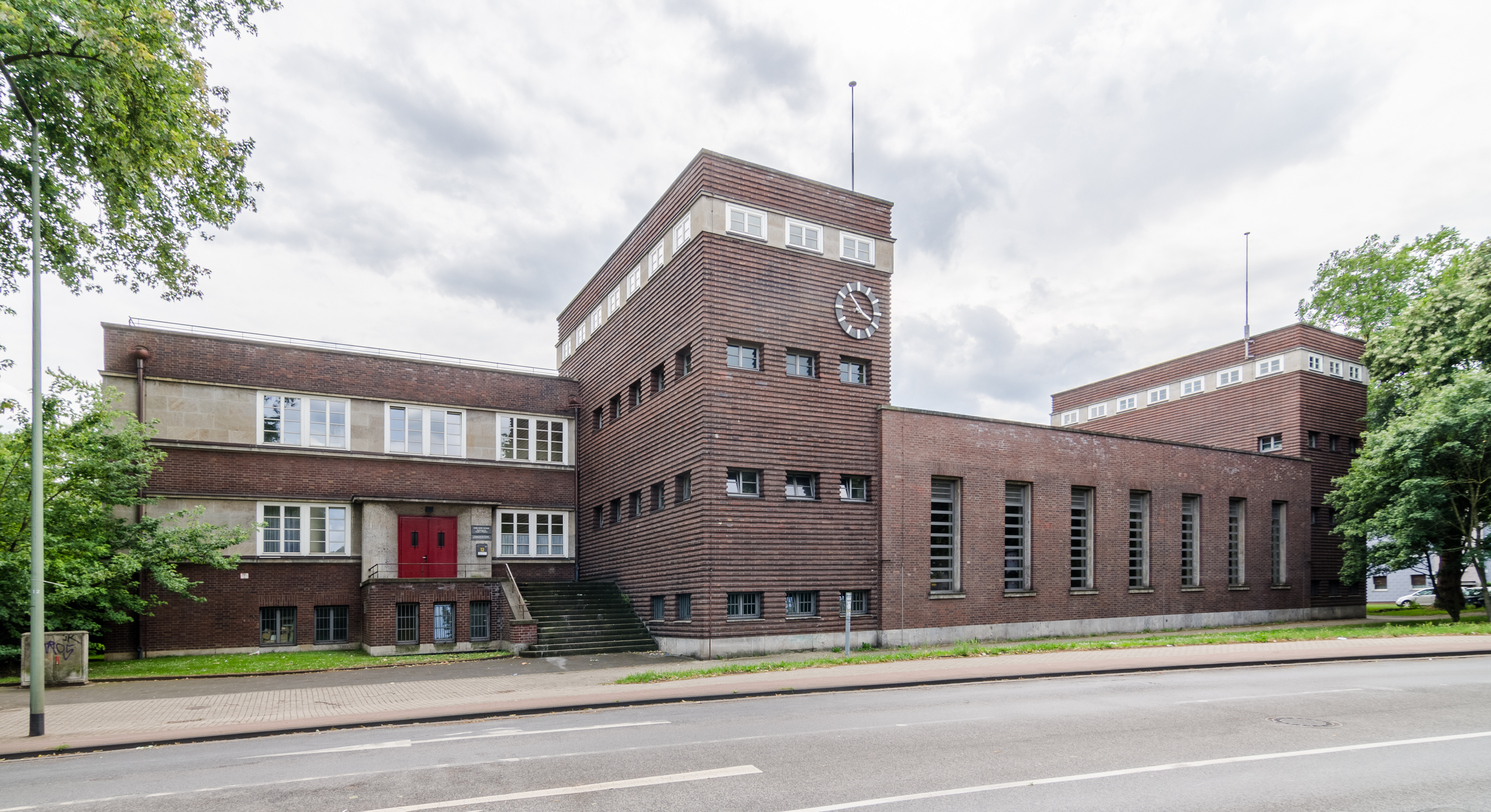 Duisburg (North Rhine-Westphalia, Germany) – borough Mitte, district Wanheimerort – Karl Lehr secondary school